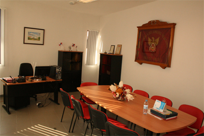 AHBVPA-GabineteDireccao